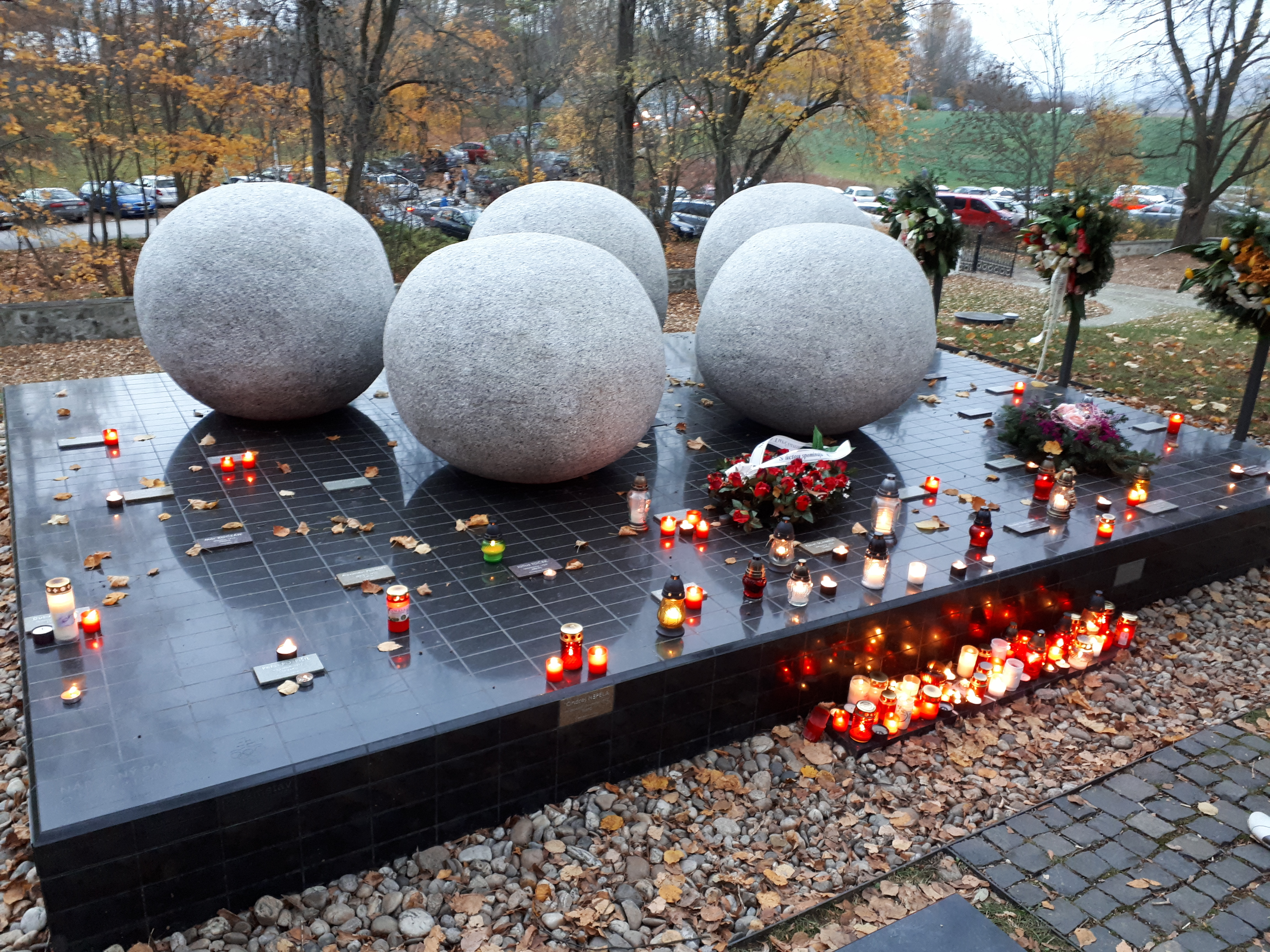 National Olympian Memorial, 11-01-2018, National Cemetery, Martin, Slovakia